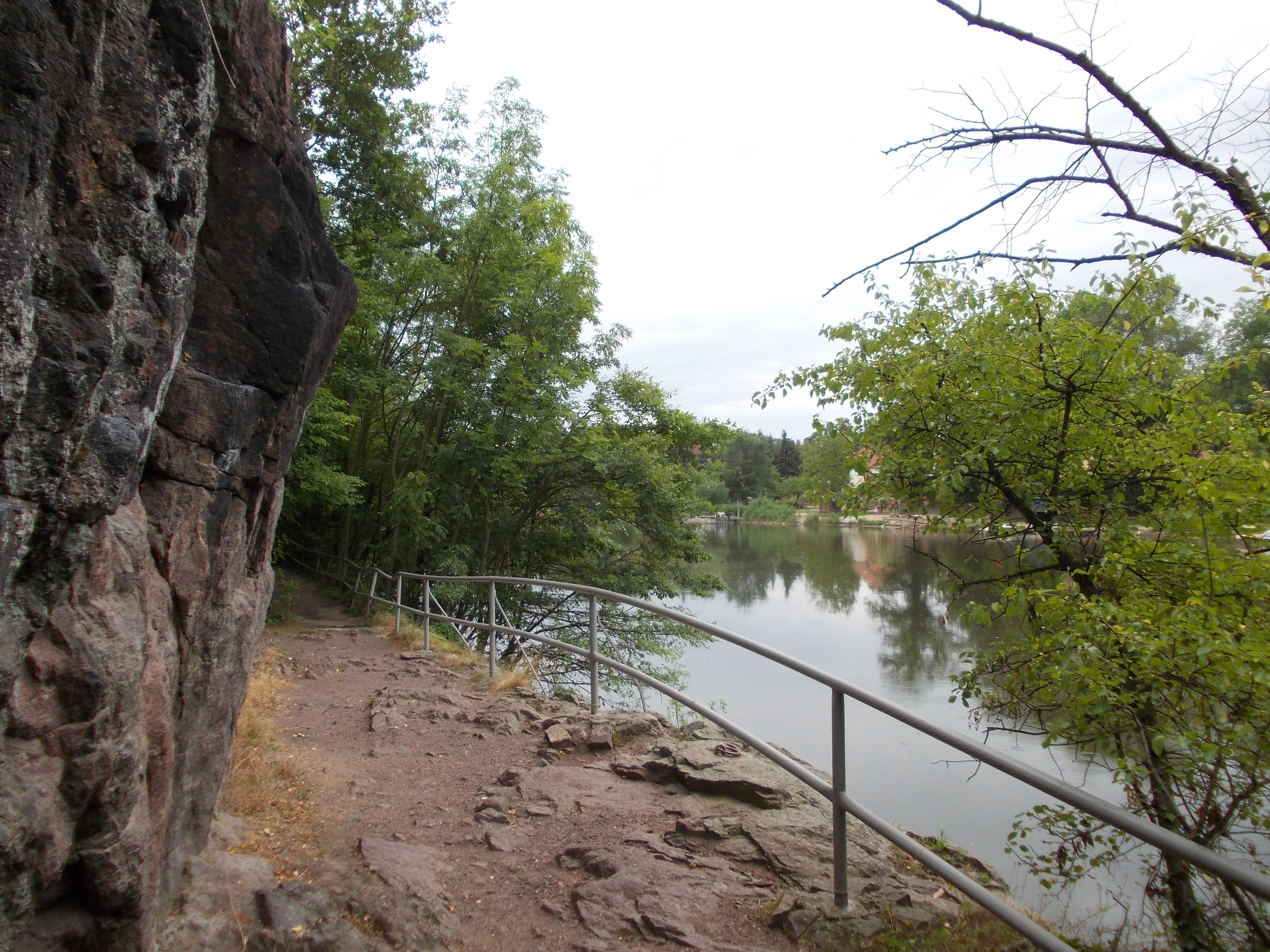 In Klausberge hills in Halle/Saale (Saxony-Anhalt)